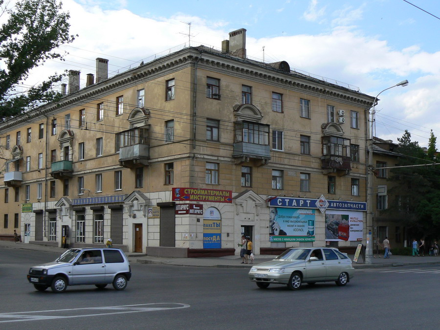 Typical building in Traktorozavodskiy district of Volgograd